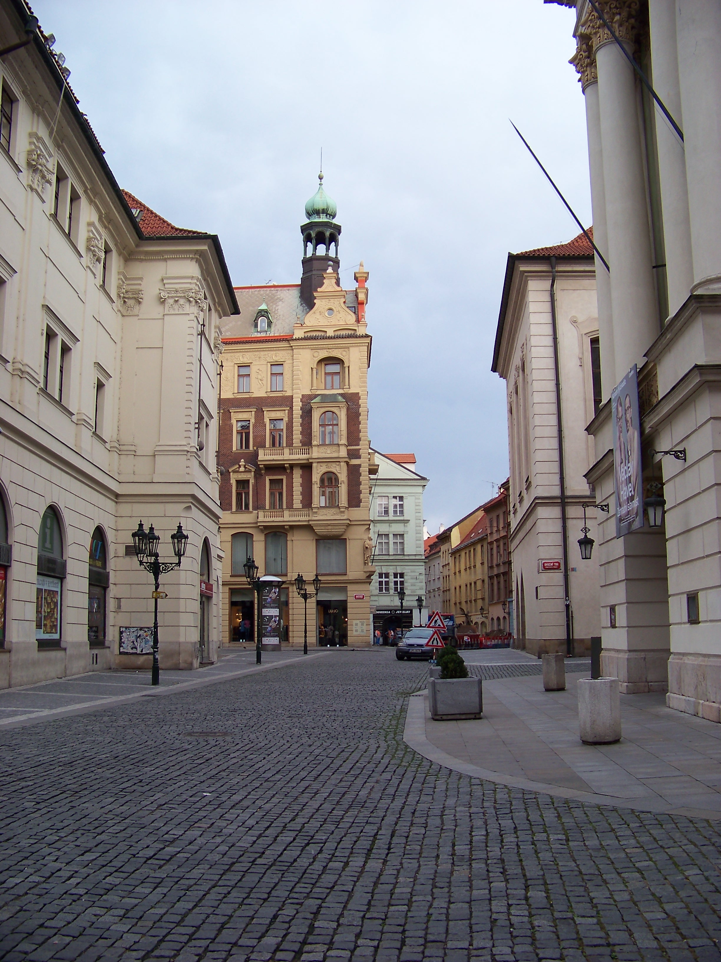 Prague-Old Town. Železná street. - OpenStreetMap (Info)